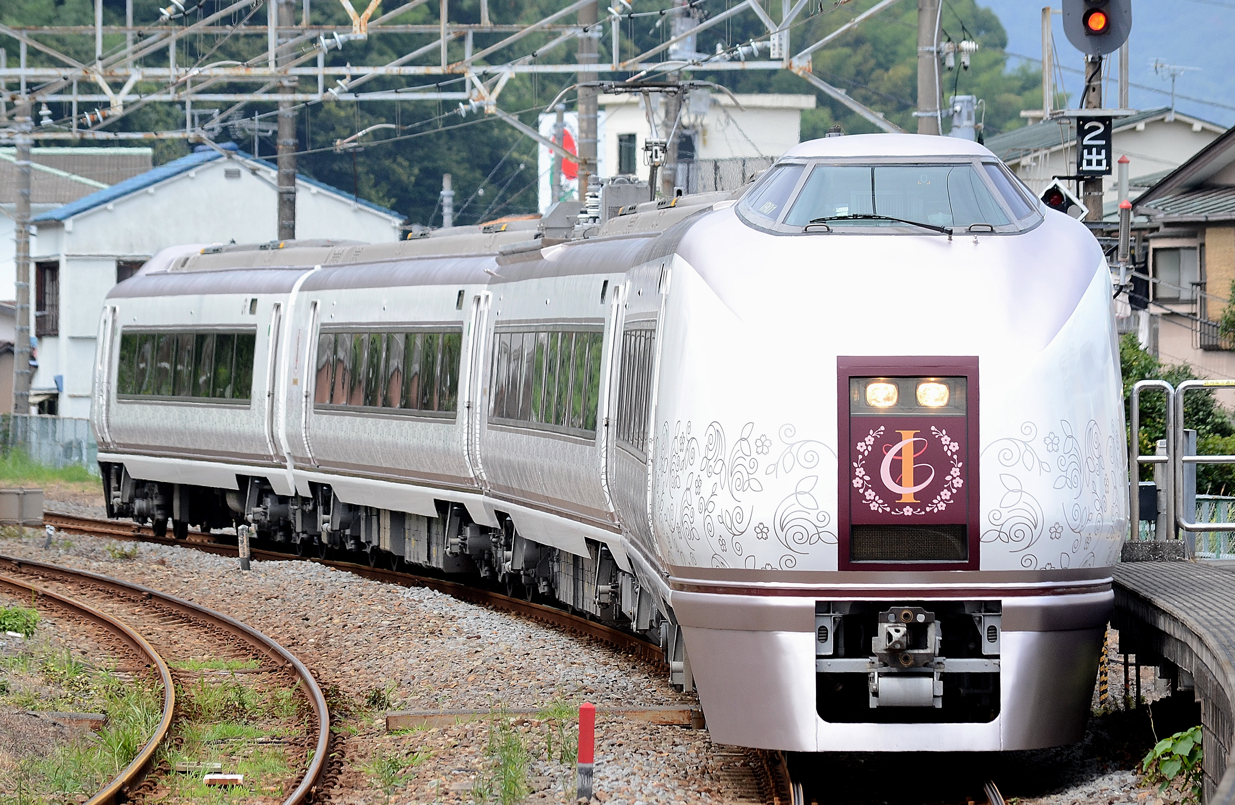 The JR East 651-1000 series Izu Craile EMU set IR01 arriving at Ito Station on the Ito Line